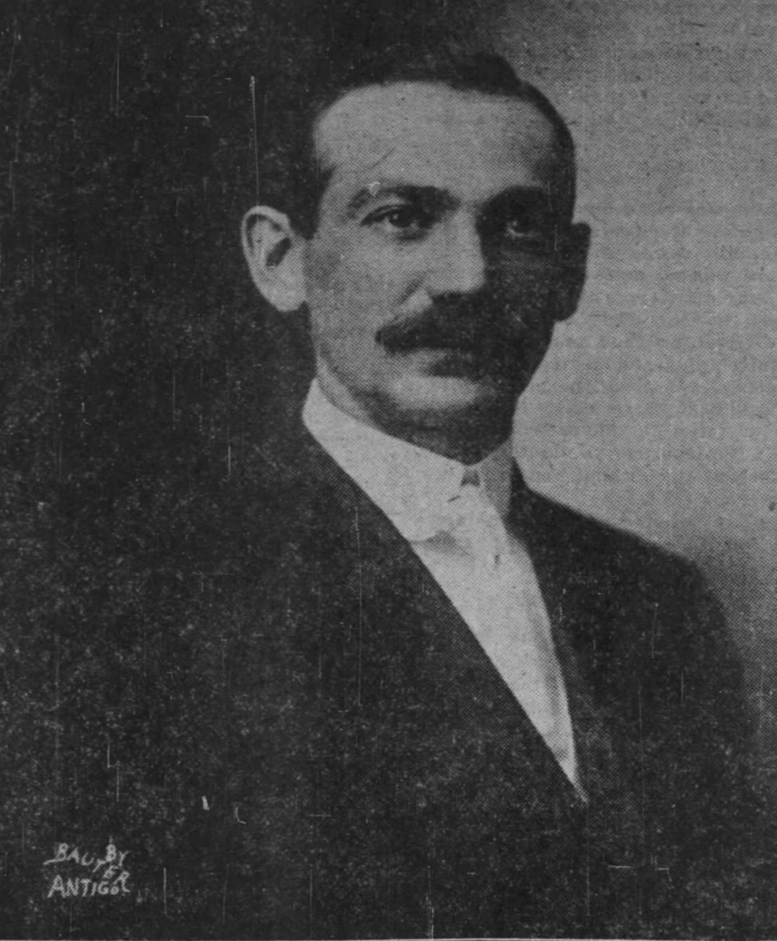 Elmer Addison Morse was a Wisconsin attorney and politician who served in the U.S. House of Representatives.